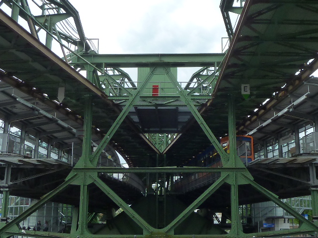 Schwebebahn station Oberbarmen. Track is divided for the turning loop